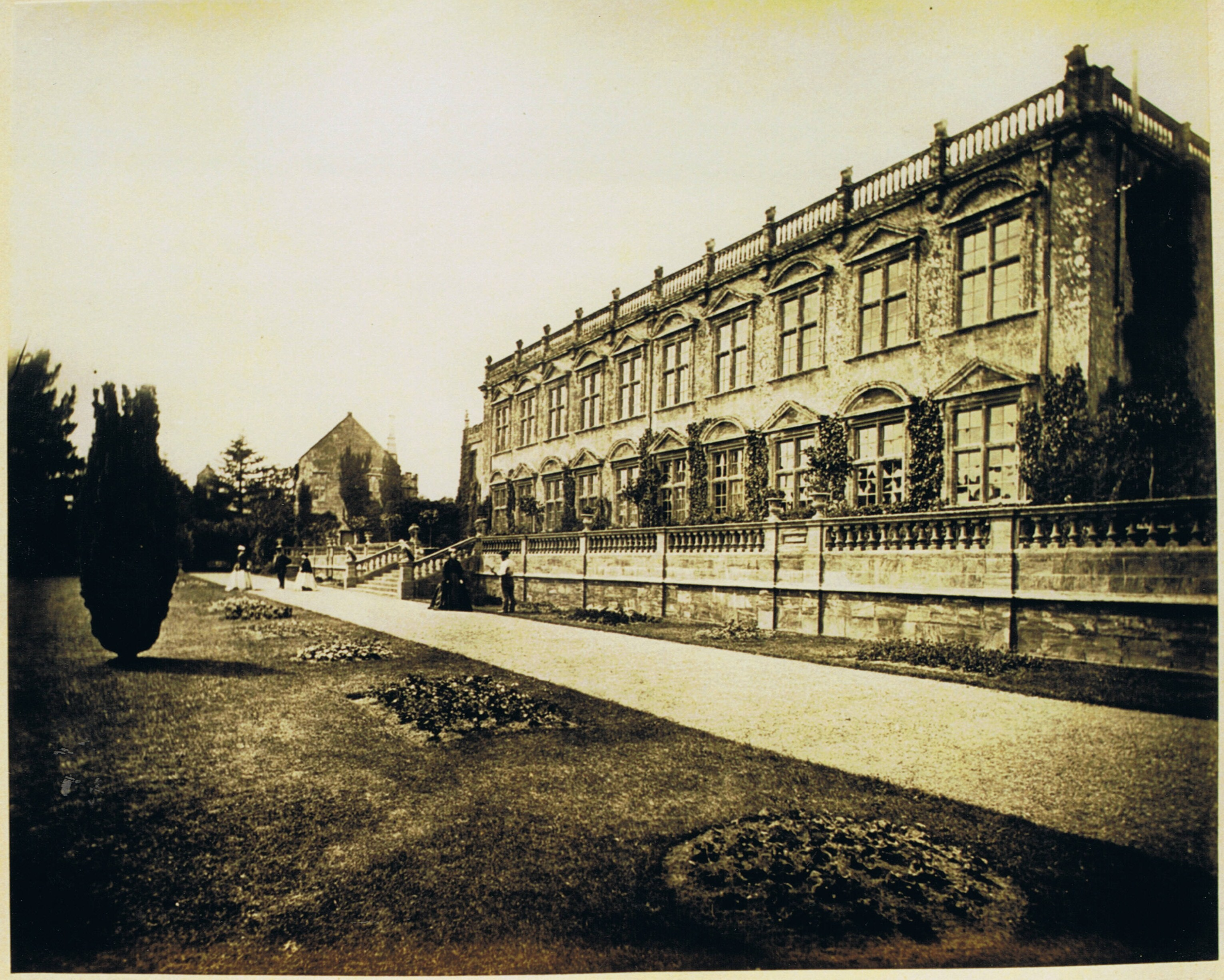 Brympton d'Evercy (also known as Brympton House), a manor house near Yeovil in the county of Somerset, England.